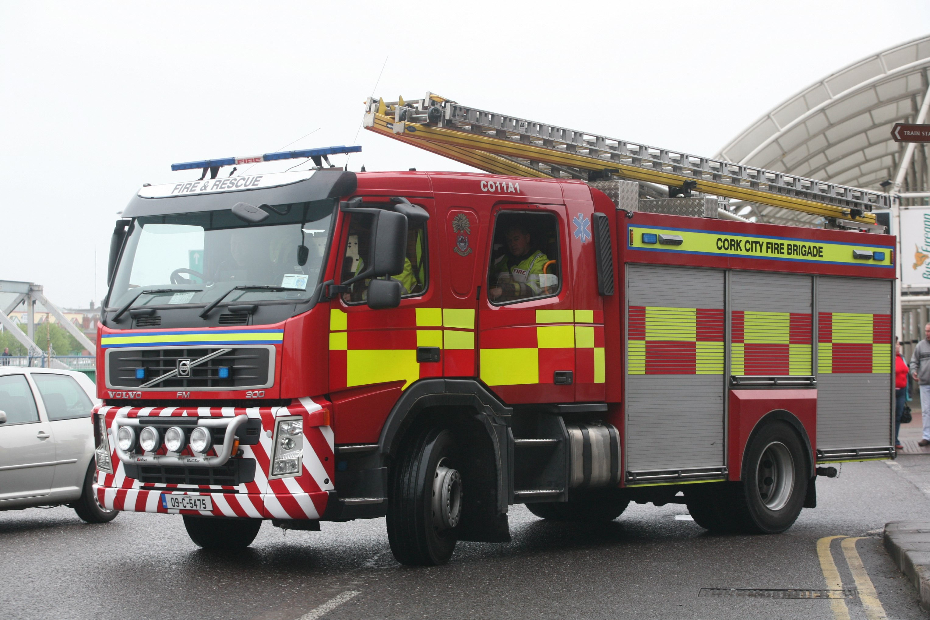 09C5475 Cork city fire brigade